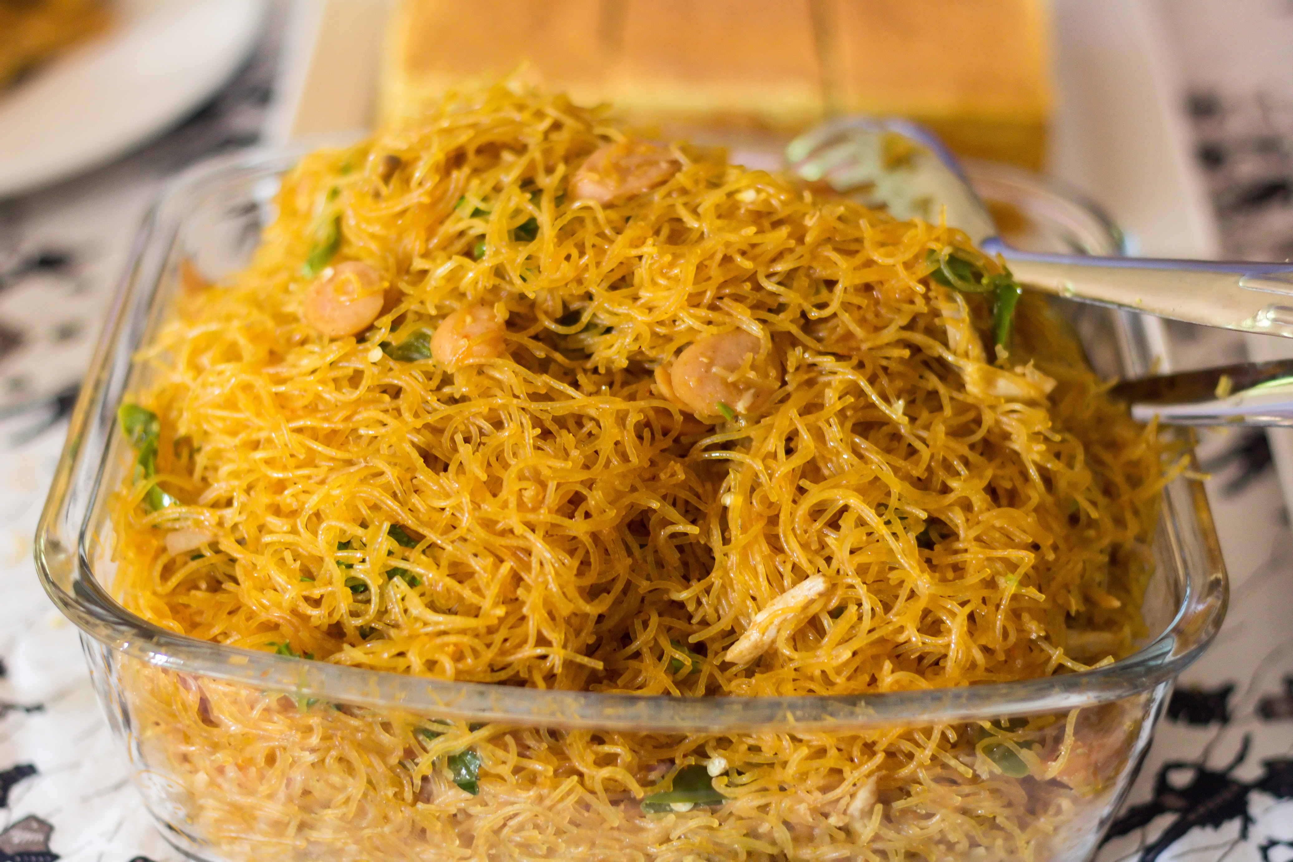 Bihun at a potluck 2015-04-12